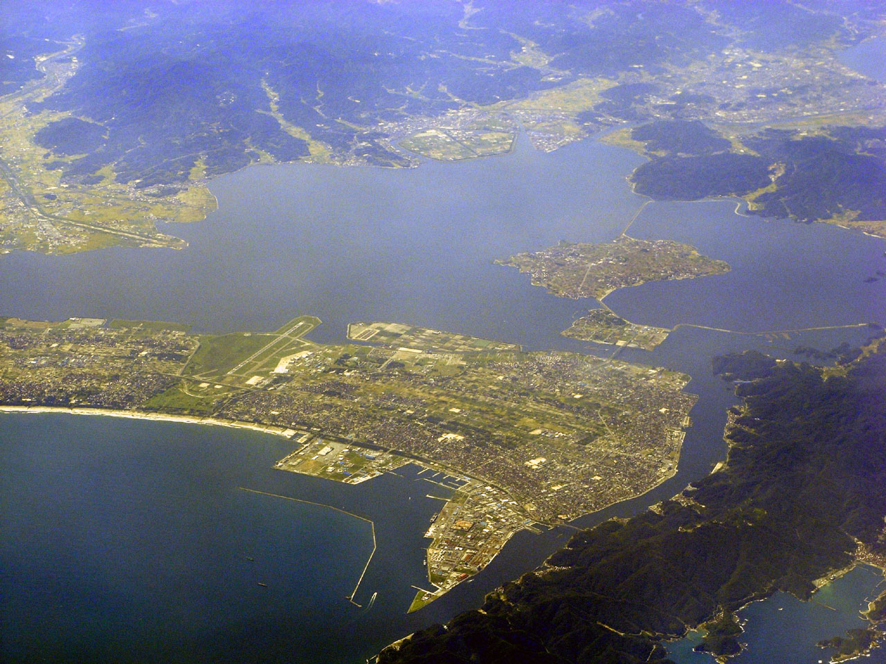 Aerial view of Sakaiminato (foreground) and Matsue (background to right foreground) in Tottori Prefecture, Japan